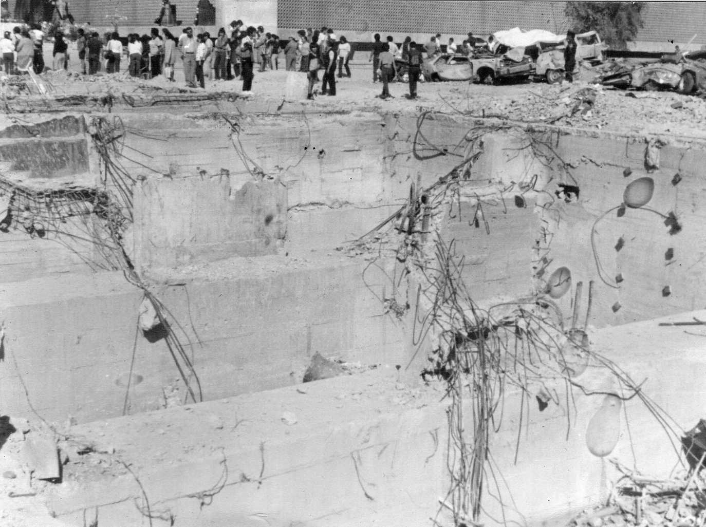 Images of Mexico City Earthquake, September 19, 1985.